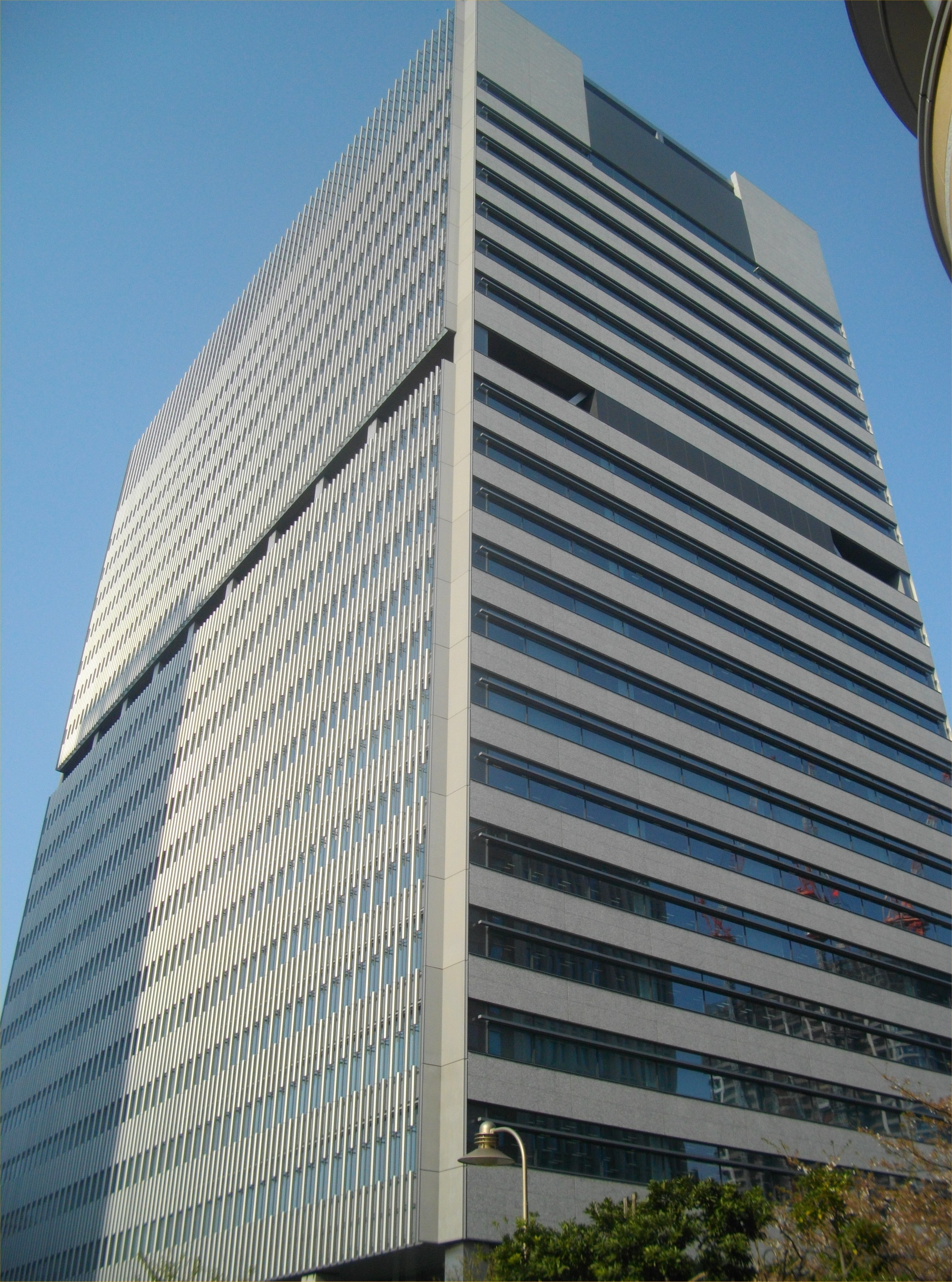 A photo of Osaki Forest Building.Higashigotanda,Shinagawa-ku,Tokyo,Japan.